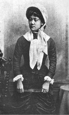 Sutematsu Yamakawa (1860–1919) when attending Vassar College.